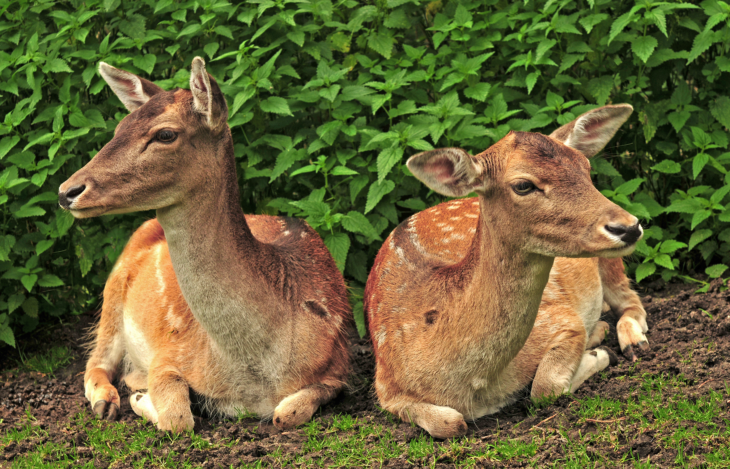 Fallow Deer in the Lüneburg Heath Wildlife Park near Nindorf, Hanstedt, Germany